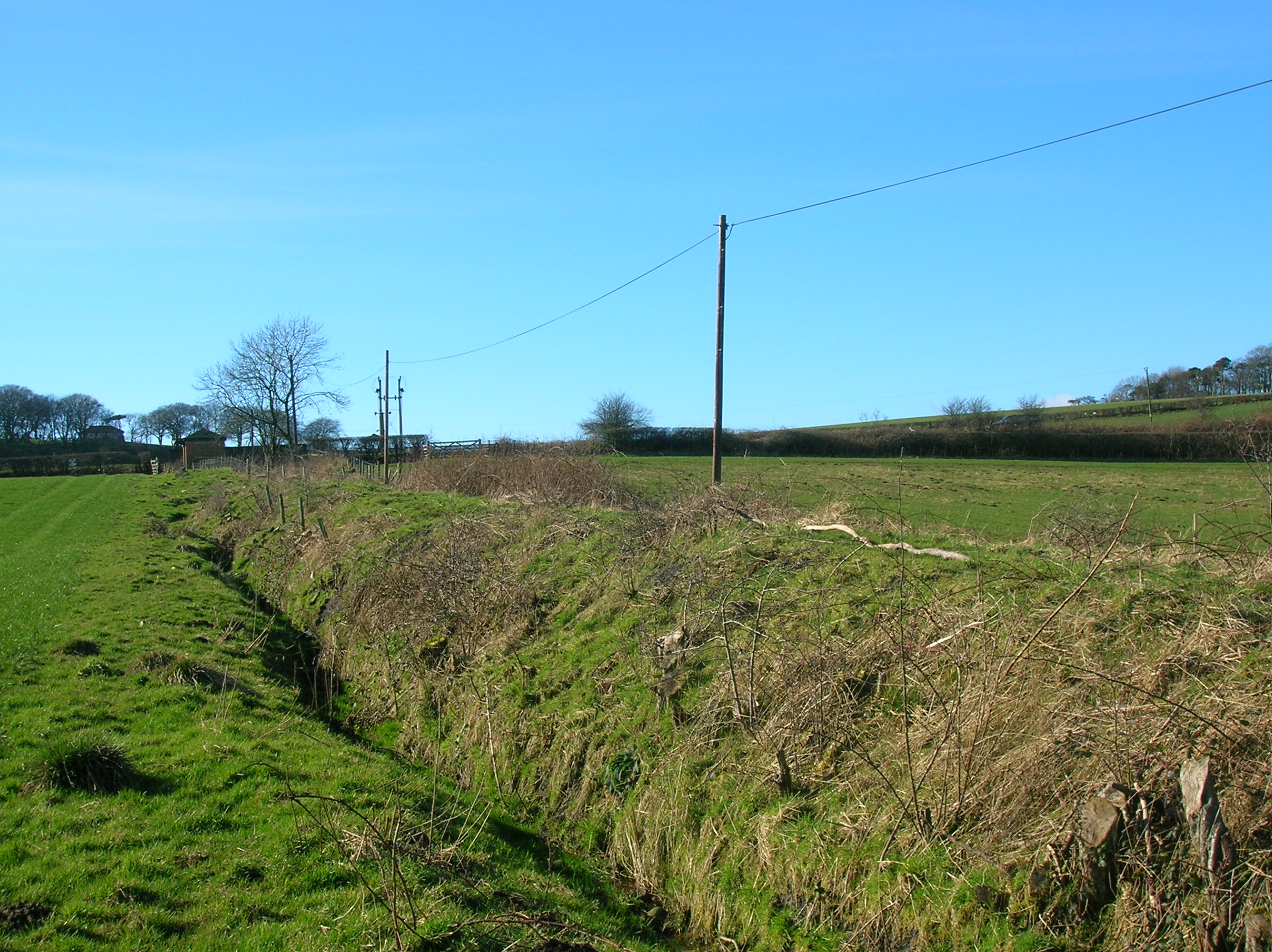 A view of the embankment of the incline plain Monkcastle fireclay mine railway. Dalry, Ayrshire, Scotland.